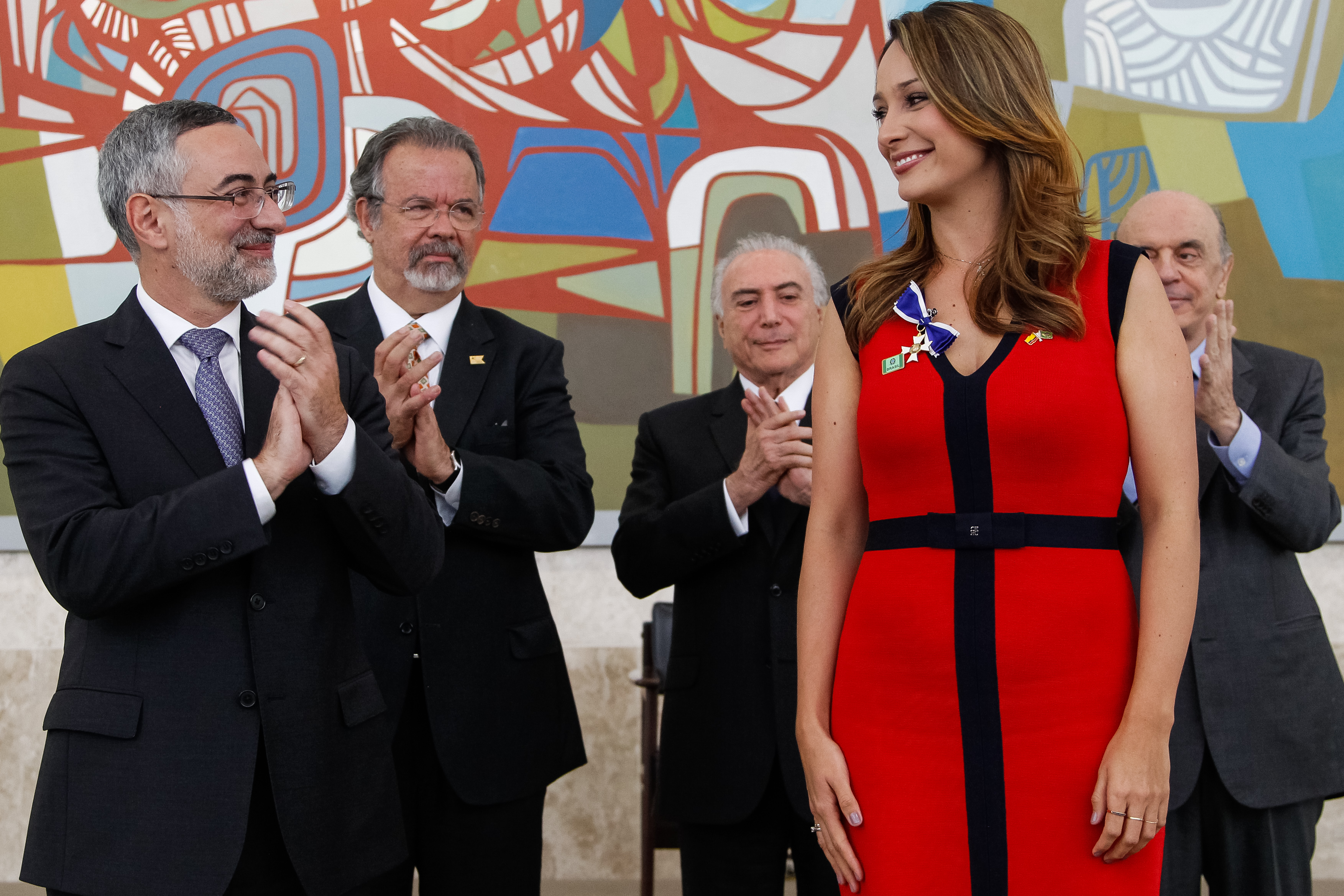 (Brasília - DF, 16/12/2016) Embaixador do Brasil na República da Colômbia, Embaixador Júlio Glinternick Bitelli, entrega a Comenda da Ordem do Rio Branco no Grau de Oficial a Apresentadora da TV Caracol, Mónica Patricia Jaramillo Giraldo. Ao fundo o Presidente Michel Temer acompanhado do do Ministro da Defesa, Raul Jungmann e o Ministro das Relações Exteriores, José Serra, durante Cerimônia de entrega da Ordem de Rio Branco e da Ordem do Mérito da Defesa a cidadãos colombianos e ao prefeito de Chapecó.Foto: Beto Barata/PR